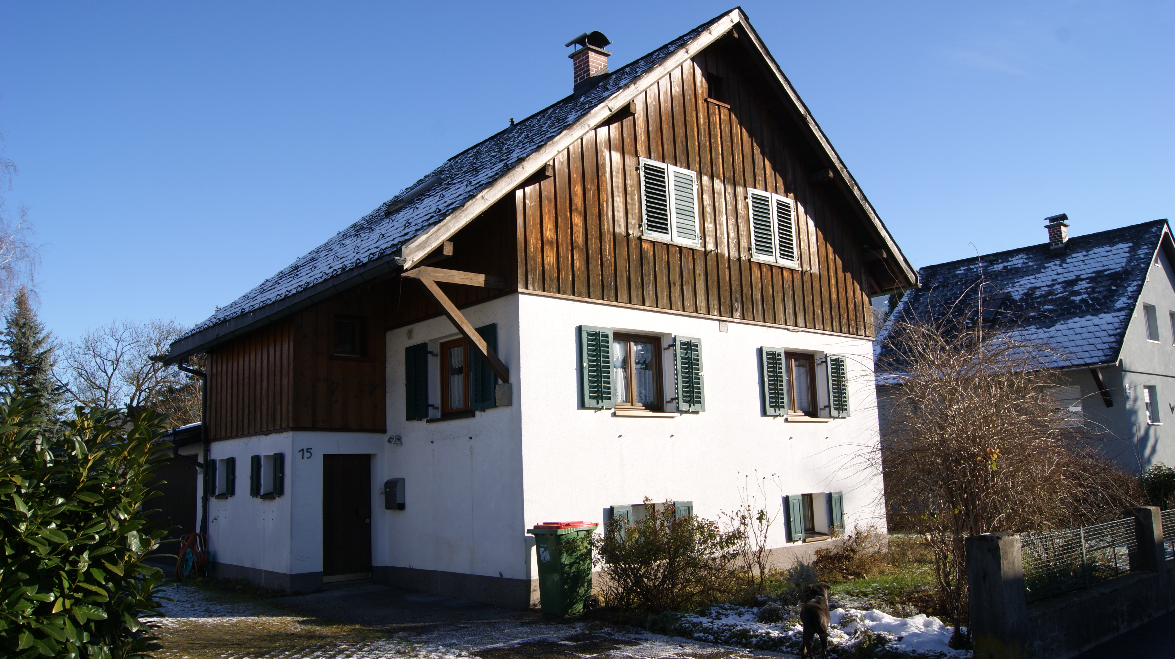 Housing estate / worker settlement "Im Forach" in Dornbirn, Vorarlberg, Austria. House No. 15.